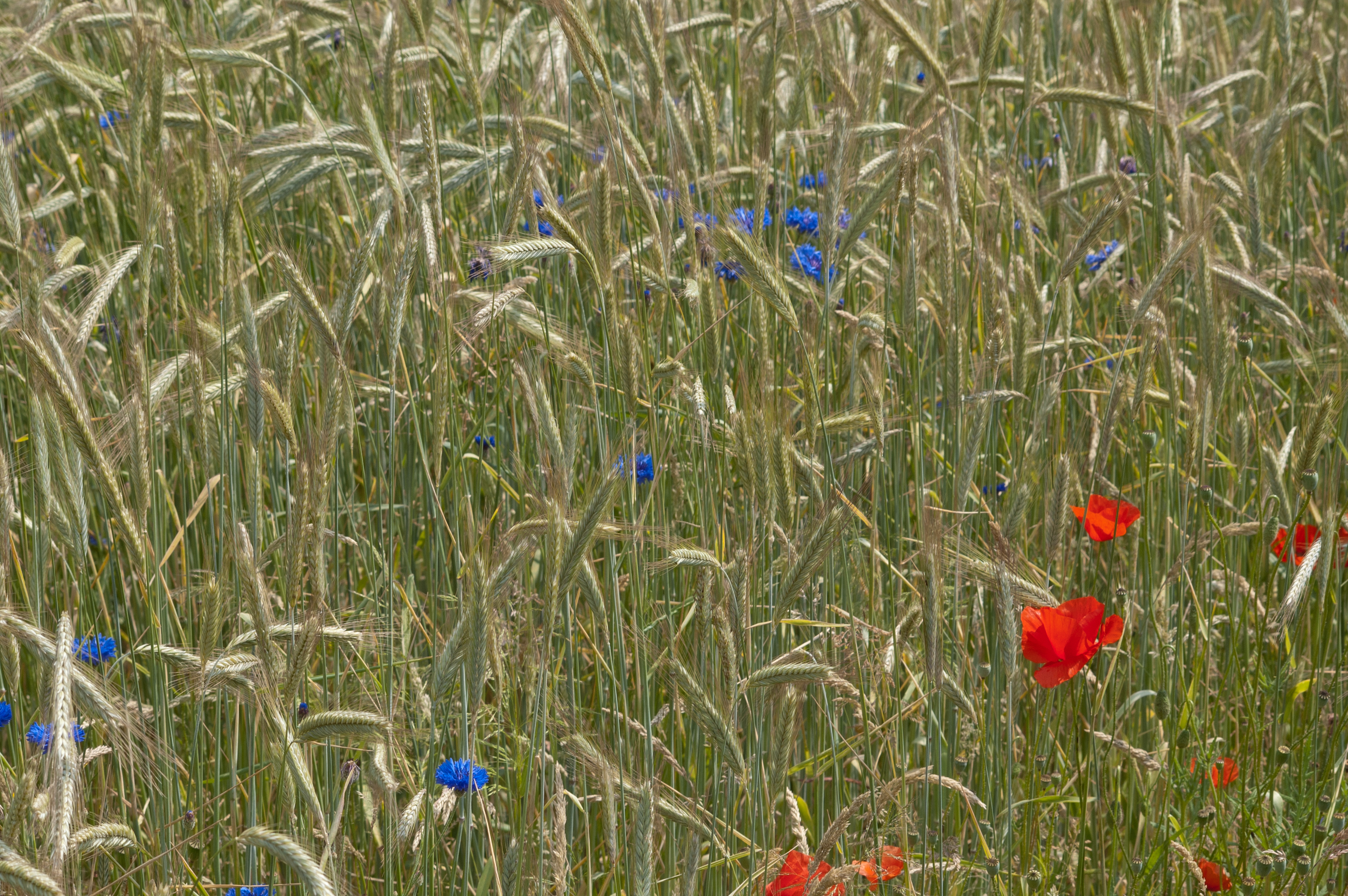 Rye with bluebottle and corn poppy